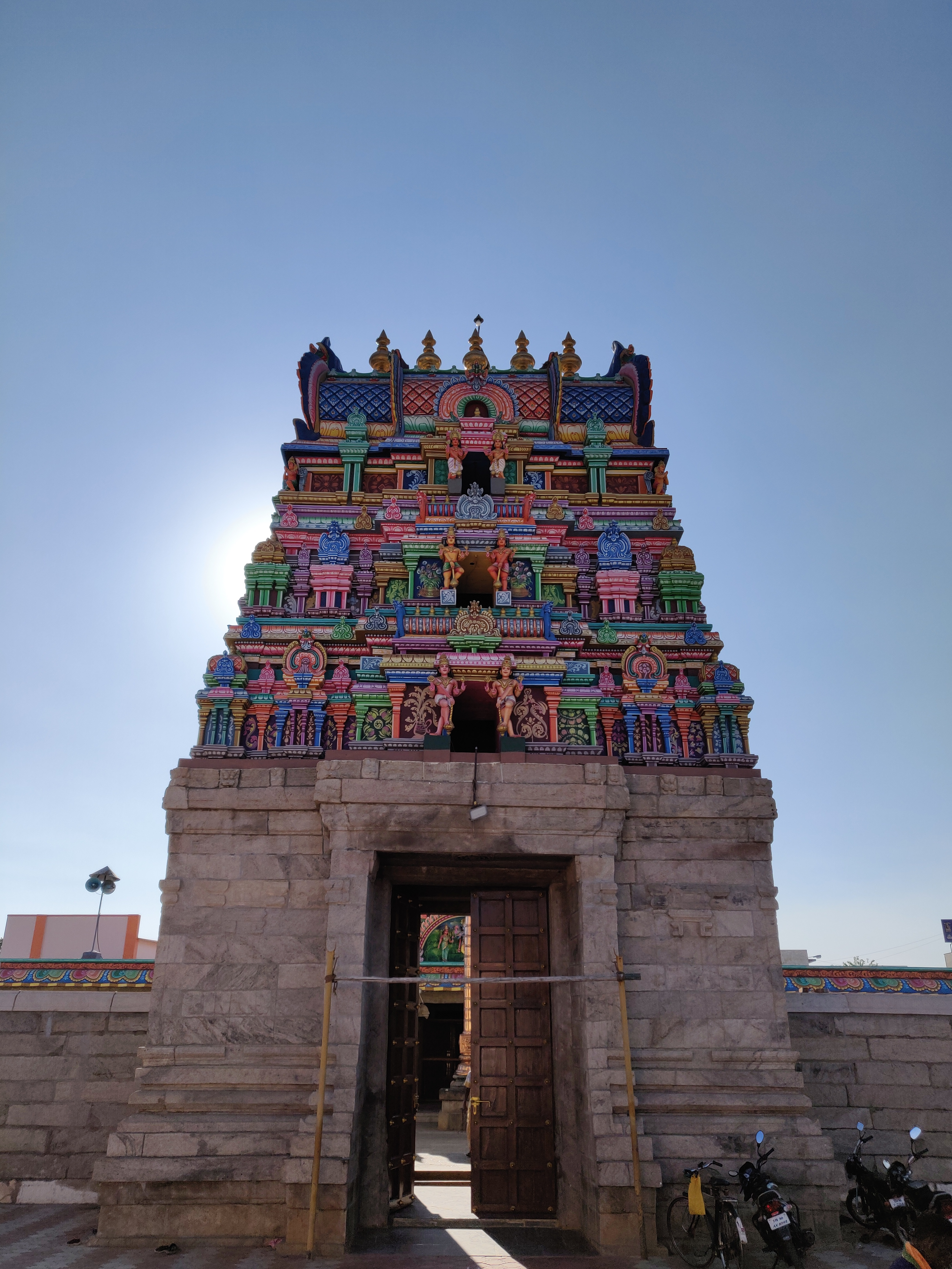 Pictures clicked in Sathyamangalam Sri Venugopalaswami temple, Tamilnadu, India